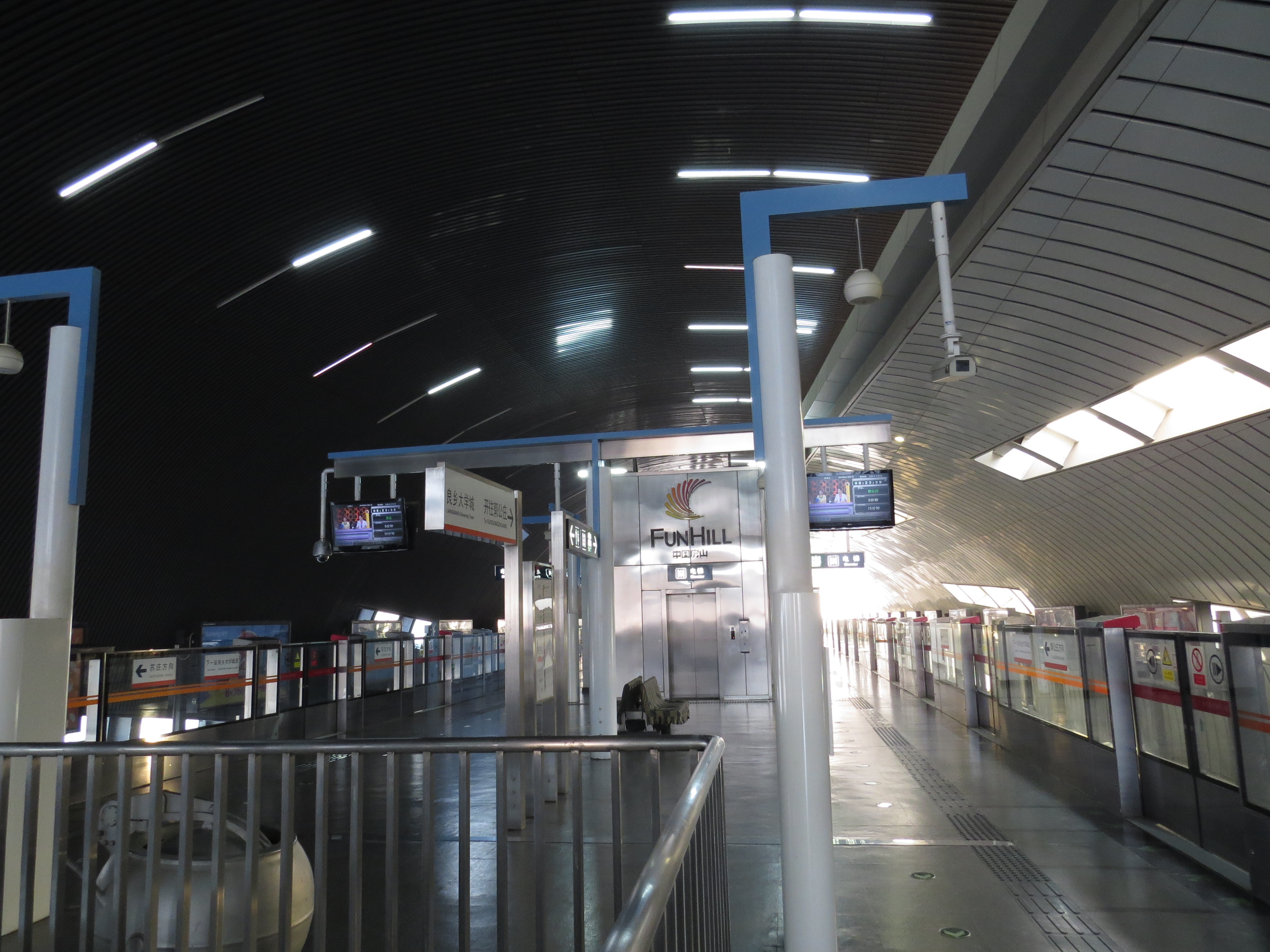 The platform of Liangxiang University Town subway station, a station of Fangshan Line.